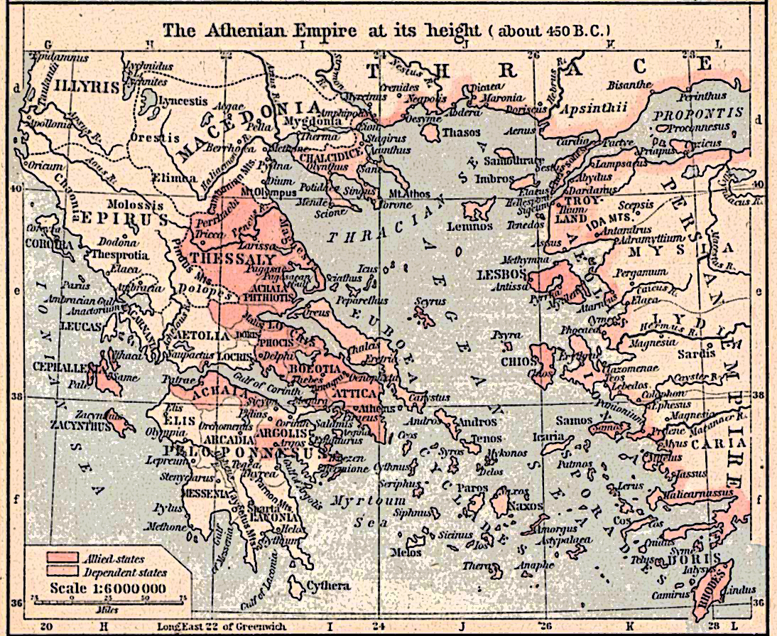 Scan from "Historical Atlas" by William R. Shepherd, New York, Henry Holt and Company, 1926 ed. Original image at the Perry-Castañeda Library Map Collection at the University of Texas at Austin website: From the FAQ @ Most of the maps scanned by the University of Texas Libraries and served from this web site are in the public domain. No permissions are needed to copy them. You may download them and use them as you wish. A few maps are copyrighted, and are clearly marked as such. Any that are copyrighted by The University of Texas are subject to our Materials Usage Guidelines. This map is not so marked. Category:Historical maps by William R. Shepherd